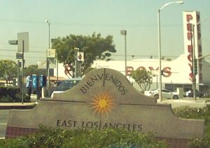 Sign in the median on southbound Atlantic Boulevard near the Pomona Boulevard intersection which welcomes visitors to the unincorporated community of East Los Angeles. The sign looks similar on the other side except that the message is "Adios. "